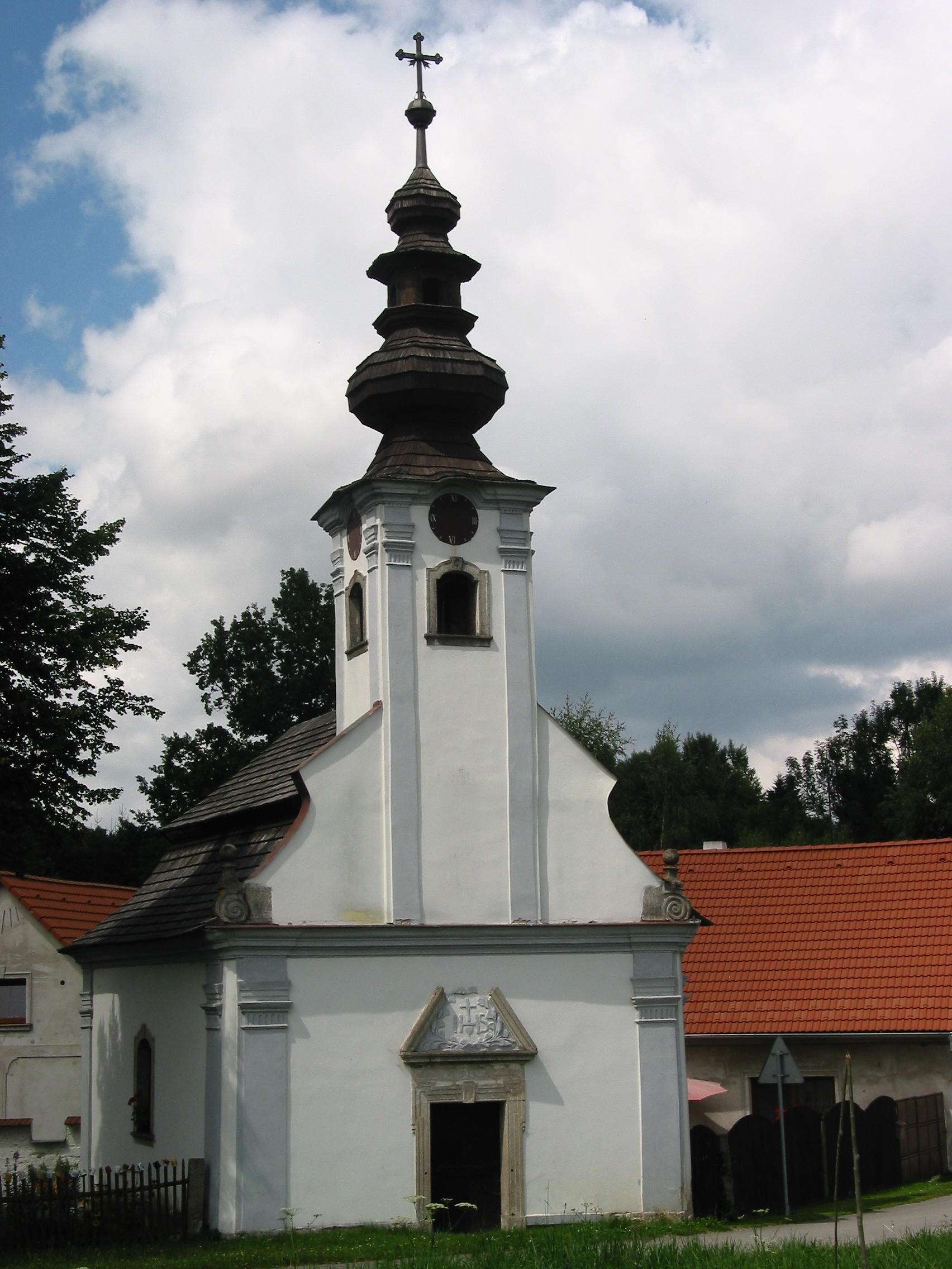 Chapel of st. Michael in Senotin, Czech Republic